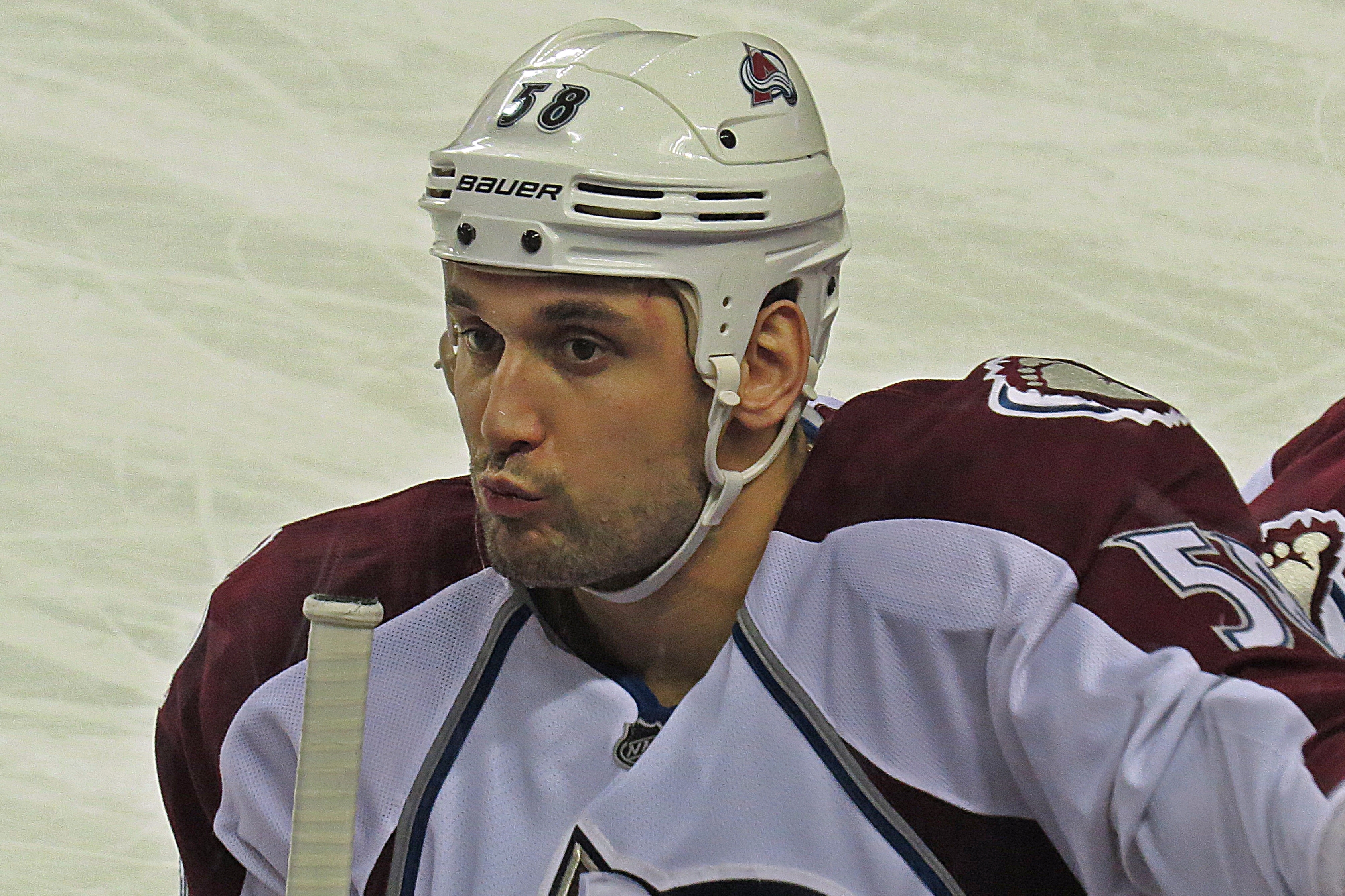 Patrick Bordeleau of the Colorado Avalanche during the 2013–14 season.